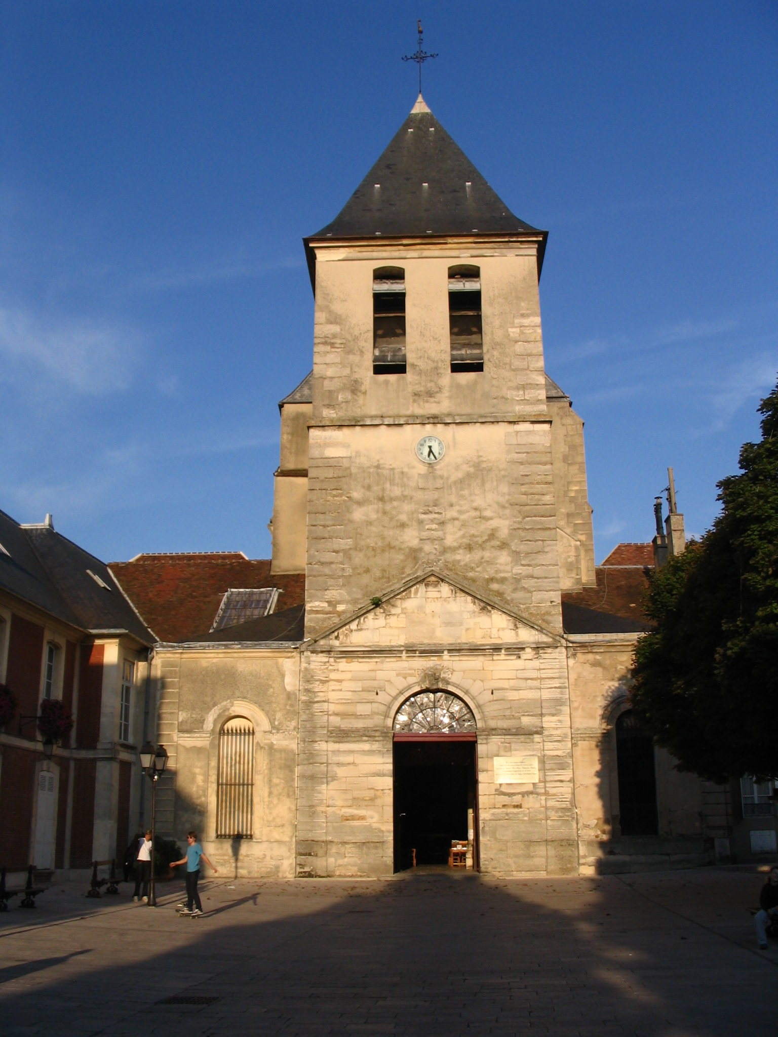 St Peter's Abbey Church, in Lagny-sur-Marne, Seine-et-Marne, Île-de-France region.